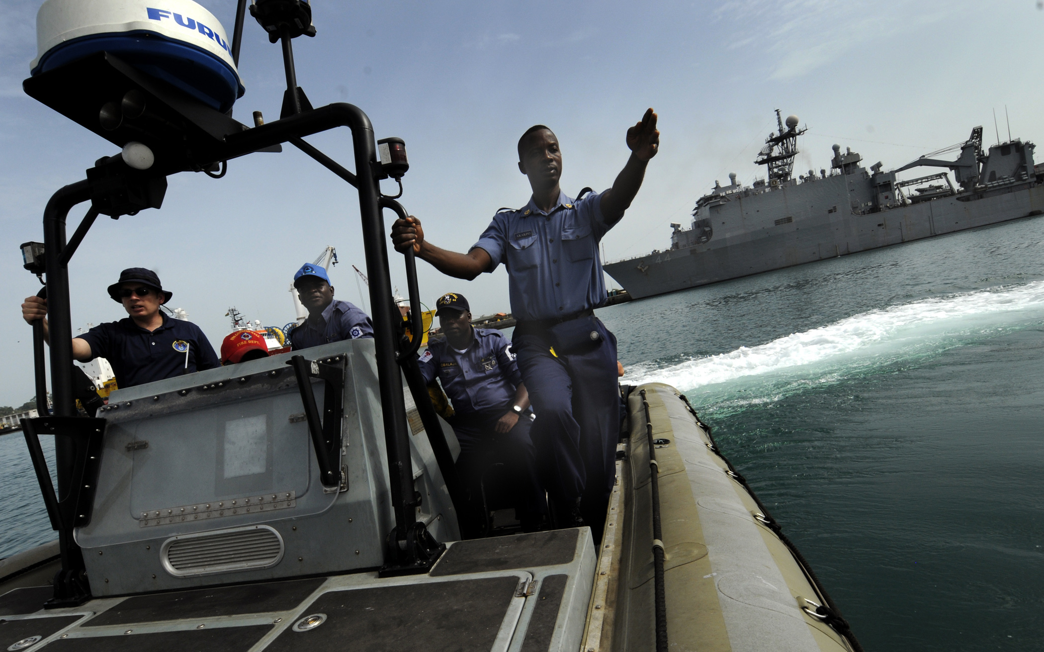 SEKONDI, Ghana (March 15, 2010) Ghana navy Chief Petty Officer Akakpo Cudjoe points in the direction of a life ring as Nigerian navy Able Seaman Quarter Armory 2nd Class Useini Owuna steers a rigid hull inflatable boat during an Africa Partnership Station West man overboard recovery course. Africa Partnership Station is an international initiative developed by Naval Forces Europe and Naval Forces Africa to improve maritime safety and security in west and central Africa. (U.S. Navy photo by Mass Communication Specialist 1st Class Martine Cuaron/Released)